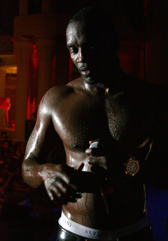 Akon - Think Pink Rocks, by Sandra Alphonse.